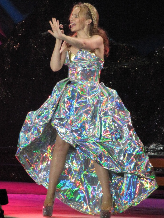 Kylie Minogue performing "Can't Get You Out of My Head", on Australian leg of Aphrodite: Les Folies Tour.